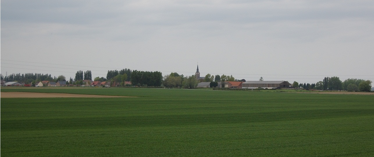 Hondeghem.